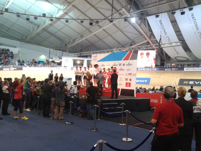 Men's team pursuit, the podium. 1) Great Britain 2) Australia 3) Denmark Great Britain: Ed Clancy, Steven Burke, Andy Tennant, Owain Doull Australia: Luke Davison, Alexander Edmondson, Mitchell Mulhern, Miles Scotson Denmark: Lasse Norman Hansen, Matthias Muller, Rasmus Christian Quaade, Alex Rasmussen